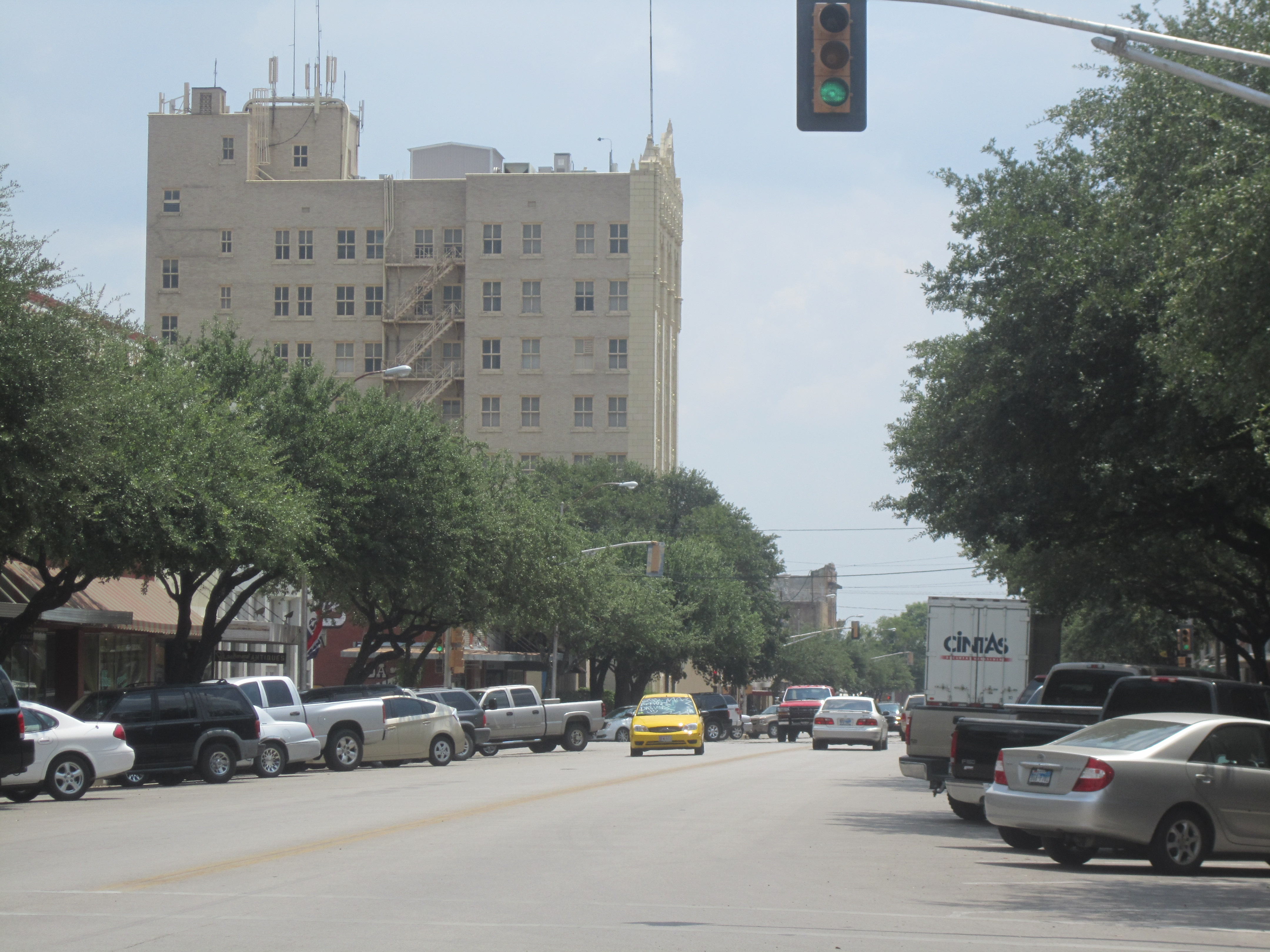 I took photo with Canon camera in Corsicana, TX.